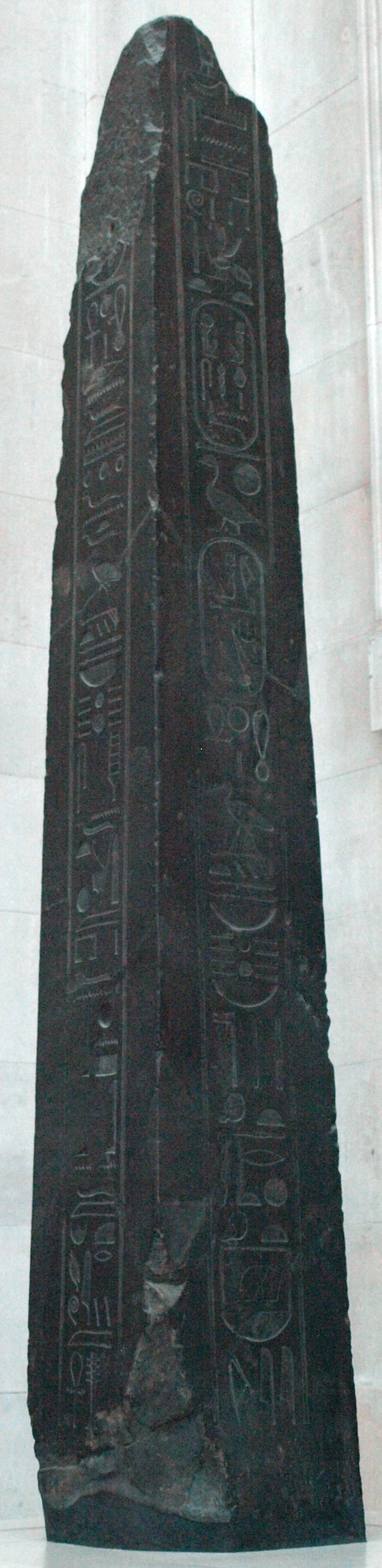 Obelisk of the pharoah Nectanebo II, 30th dynasty, circa 350 BC. One of two on display in the court of the British Museum. EA 523.